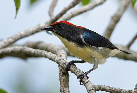 Male at Gosaba Island, Sundarban